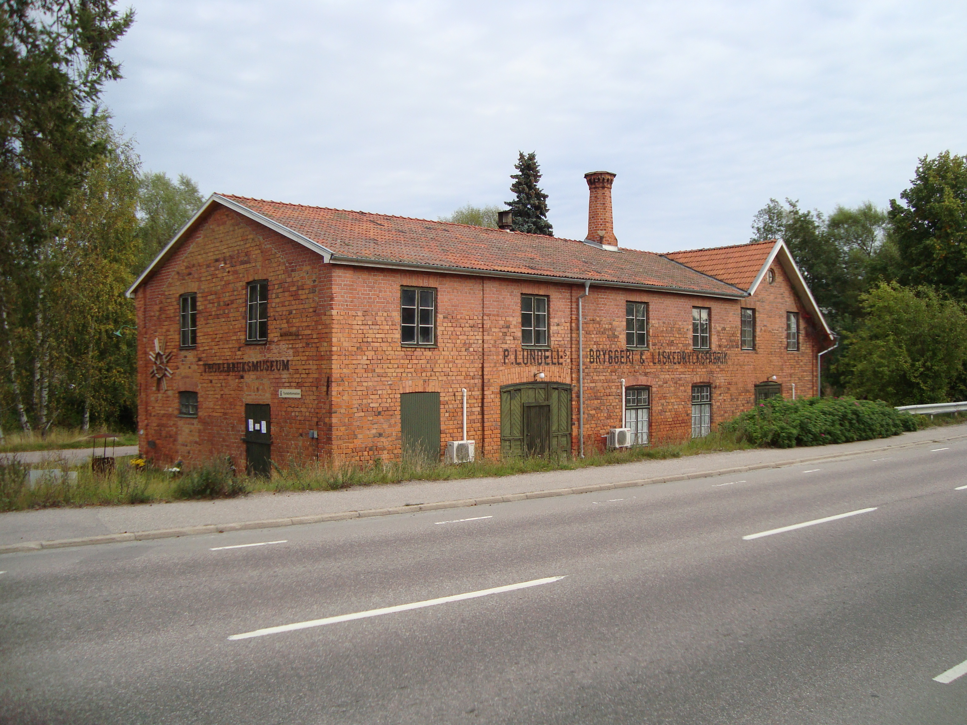 Old brewery in Heby, Sweden. Now a brick making museum.